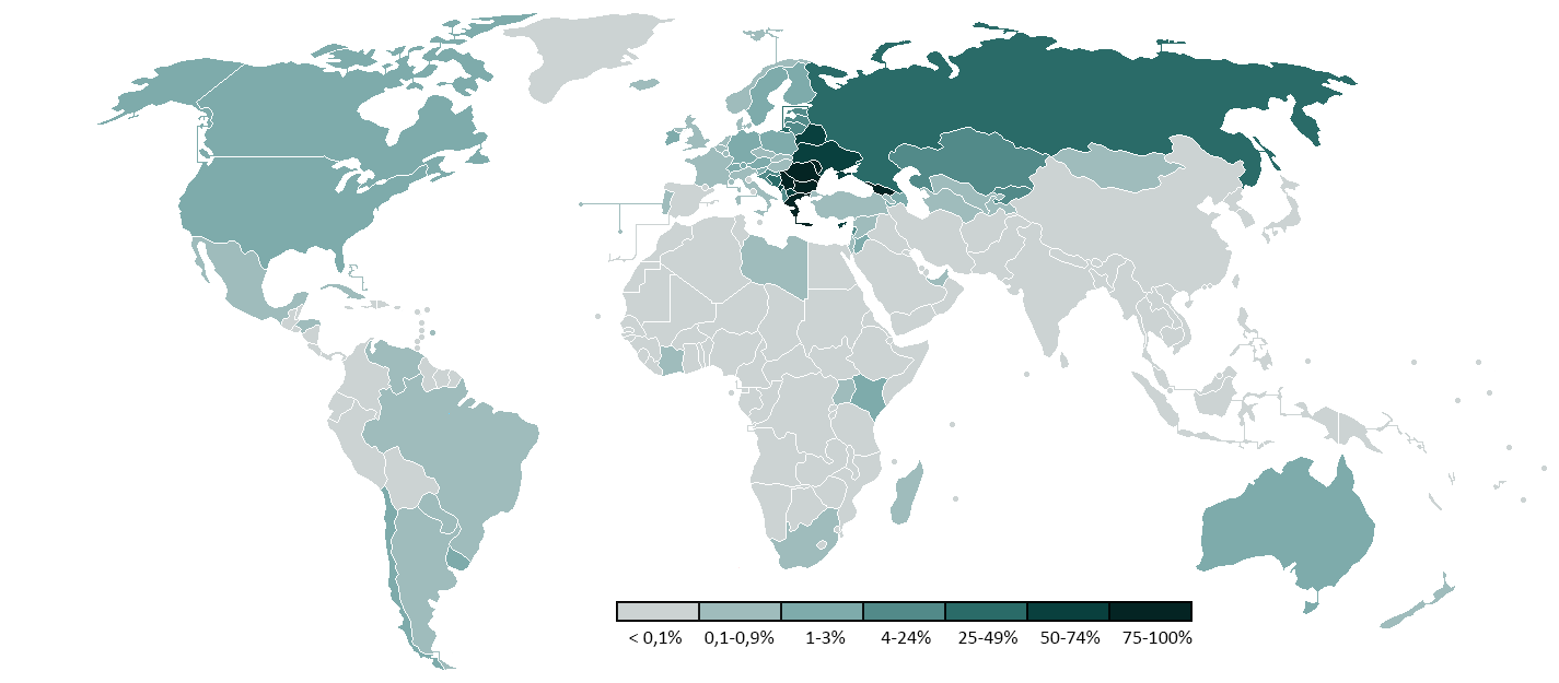 Eastern Orthodox Church faithfuls by country according to "Religious Characteristics of States Dataset Project: Demographics v. 2.0 (RCS-Dem 2.0)" by The Association of Religion Data Archives ( Statistic Data for 2015 from: . Data Principal Investigators: Dr. Davis Brown, Nonresident Fellow, Baylor University Institute for Studies of Religion; Dr. Patrick James, Dornsife Dean's Professor of International Relations, University of Southern California. Map based on World blank map countries.PNG. 95,0% Moldova 88,8% Serbia 80,4% Greece 79,7% Georgia 78,8% Romania 77,9% Bulgaria 72,1% Montenegro 68,9% Ukraine 65,1% Cyprus 57,4% Macedonia 50,3% Belarus 44,1% Russia 37,0% Bosnia-Herzegovina 20,0% Latvia 18,7% Kazakhstan 17,5% Estonia 6,9% Northern Cyprus 5,9% Kyrgyzstan 5,5% Albania 4,9% Lithuania 4,5% Croatia 4,4% Lebanon 2,4% Switzerland 2,3% Australia 2,3% Slovenia 2,0% Austria 1,9% Canada 1,8% Chile 1,8% USA 1,7% Germany 1,6% Azerbaijan 1,4% Kenya 1,4% Ireland 1,3% Poland 1,2% Liechtenstein 1,1% Finland 1,1% Uruguay 1,1% Sweden 1,0% Jordan 0,9% Kosovo 0,9% Tajikistan 0,9% Slovakia 0,8% United Kingdom 0,7% Португалія 0,7% Turkmenistan 0,7% Palestinian state 0,6% Uzbekistan 0,6% Belgium 0,6% Syria 0,5% Israel 0,5% France 0,5% South Africa 0,4% Cuba 0,3% Argentina 0,3% Cote d'Ivoir 0,3% Armenia 0,3% Iceland 0,3% New Zealand 0,3% Libya 0,3% Norway 0,3% Luxembourg 0,2% Italy 0,2% Denmark 0,2% Monaco 0,2% Czech Republic 0,2% United Arab Emirates 0,2% Paraguay 0,2% Barbados 0,2% Netherlands 0,1% Hungary 0,1% Madagaskar 0,1% Channel Islands 0,1% Bahamas 0,1% Mexico 0,1% Venezuela 0,1% Brasil 0,1% Mongolia 0,1% Uganda 0,1% Turkey 0,1% Bolivia 0,1% Honduras